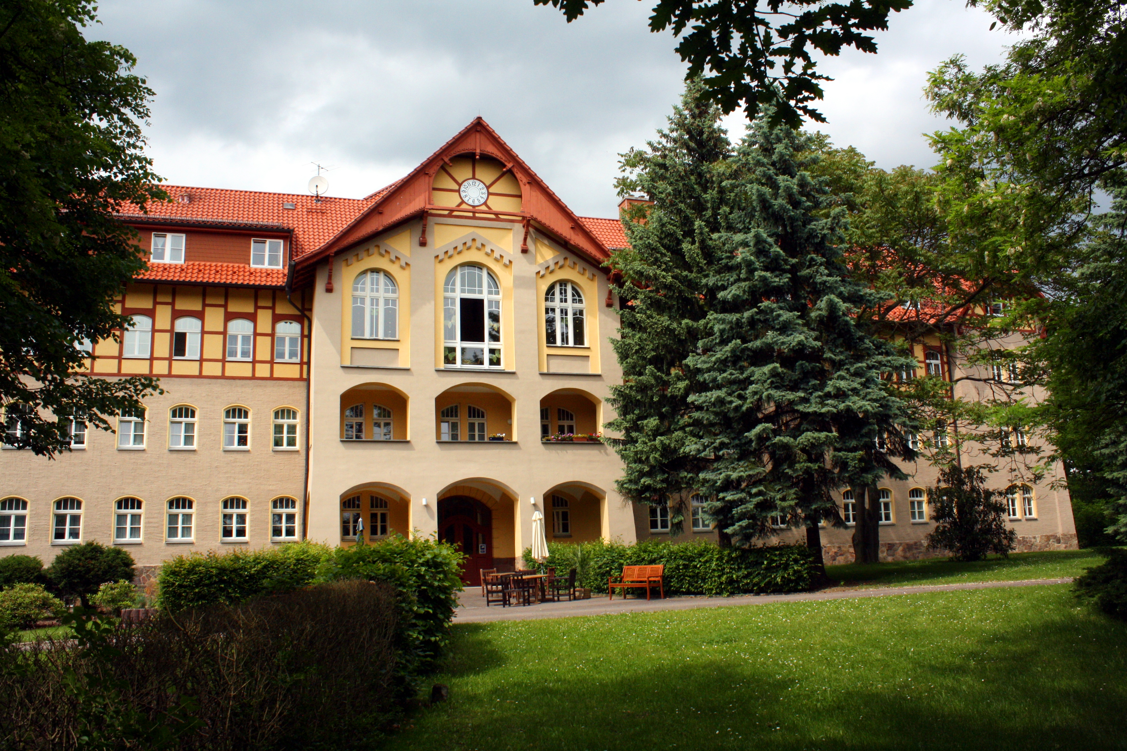 Home for the elderly in Treben-PLottendorf near Altenburg/Thuringia